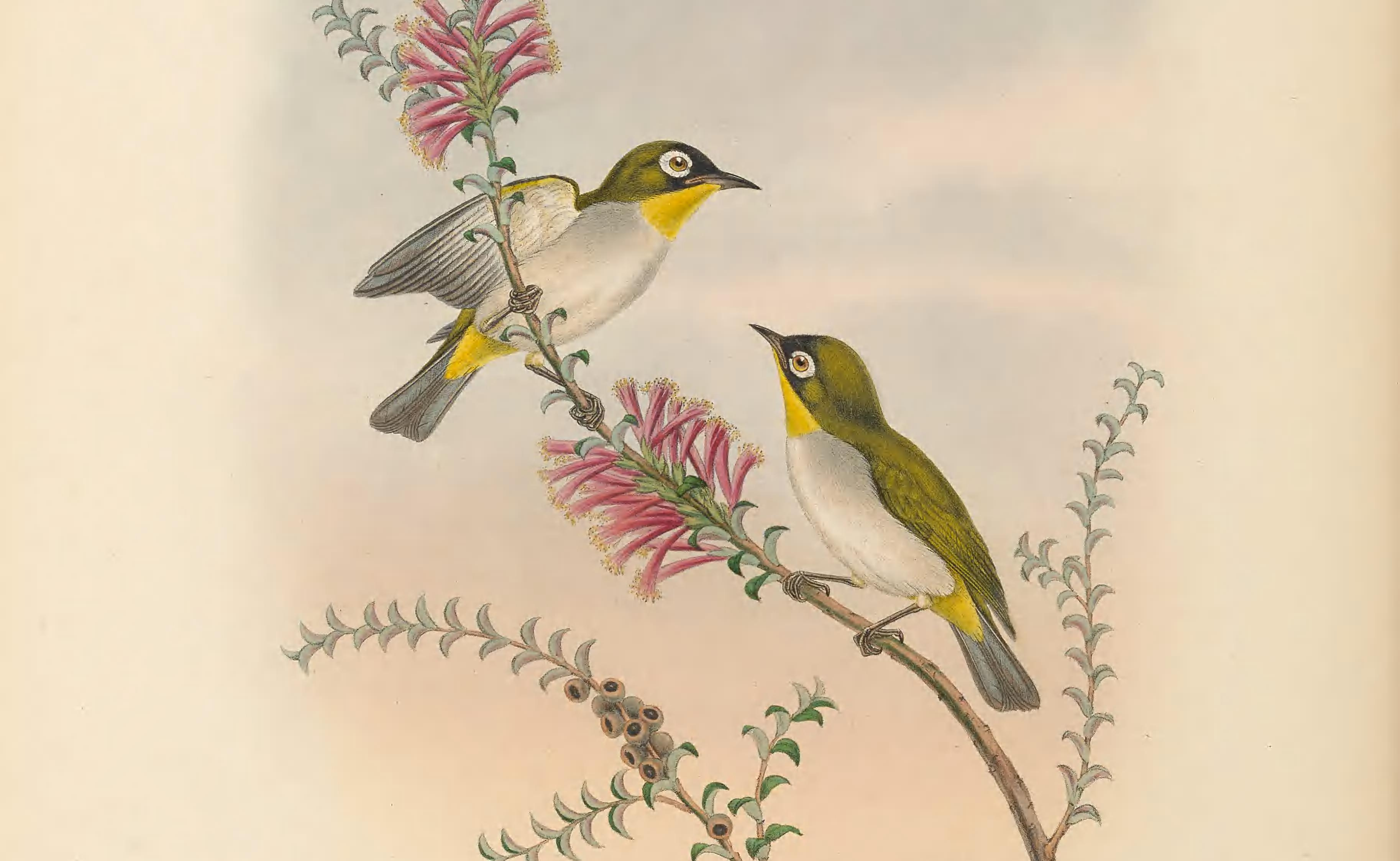 Zosterops delicatula (= Zosterops minor delicatulus) in The birds of New Guinea and the adjacent Papuan islands, including many new species recently discovered in Australia. v.3 (Plate 62).